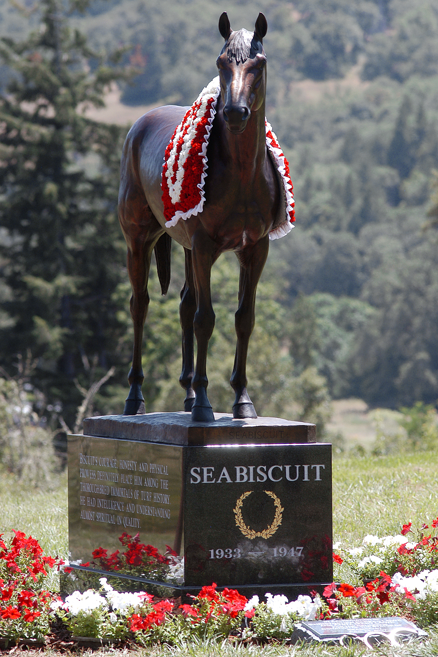 Seabiscuit Heritage Foundation statute